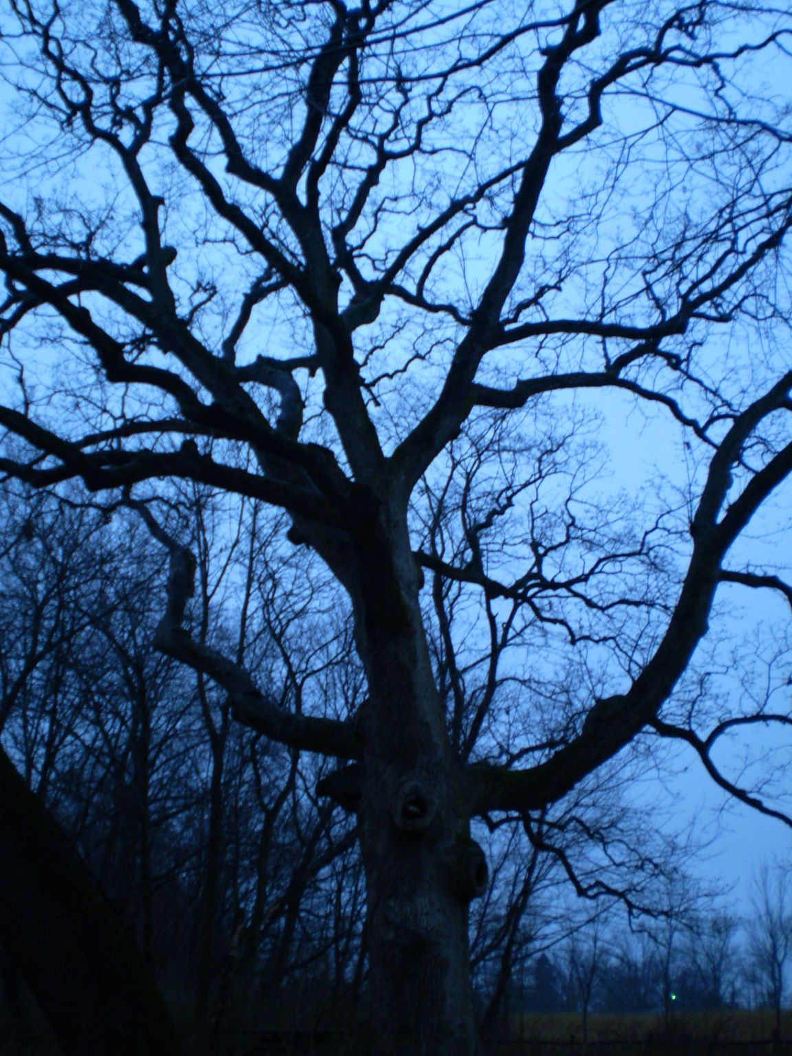 Evening photograph of the Washington Oak in Princeton, NJ